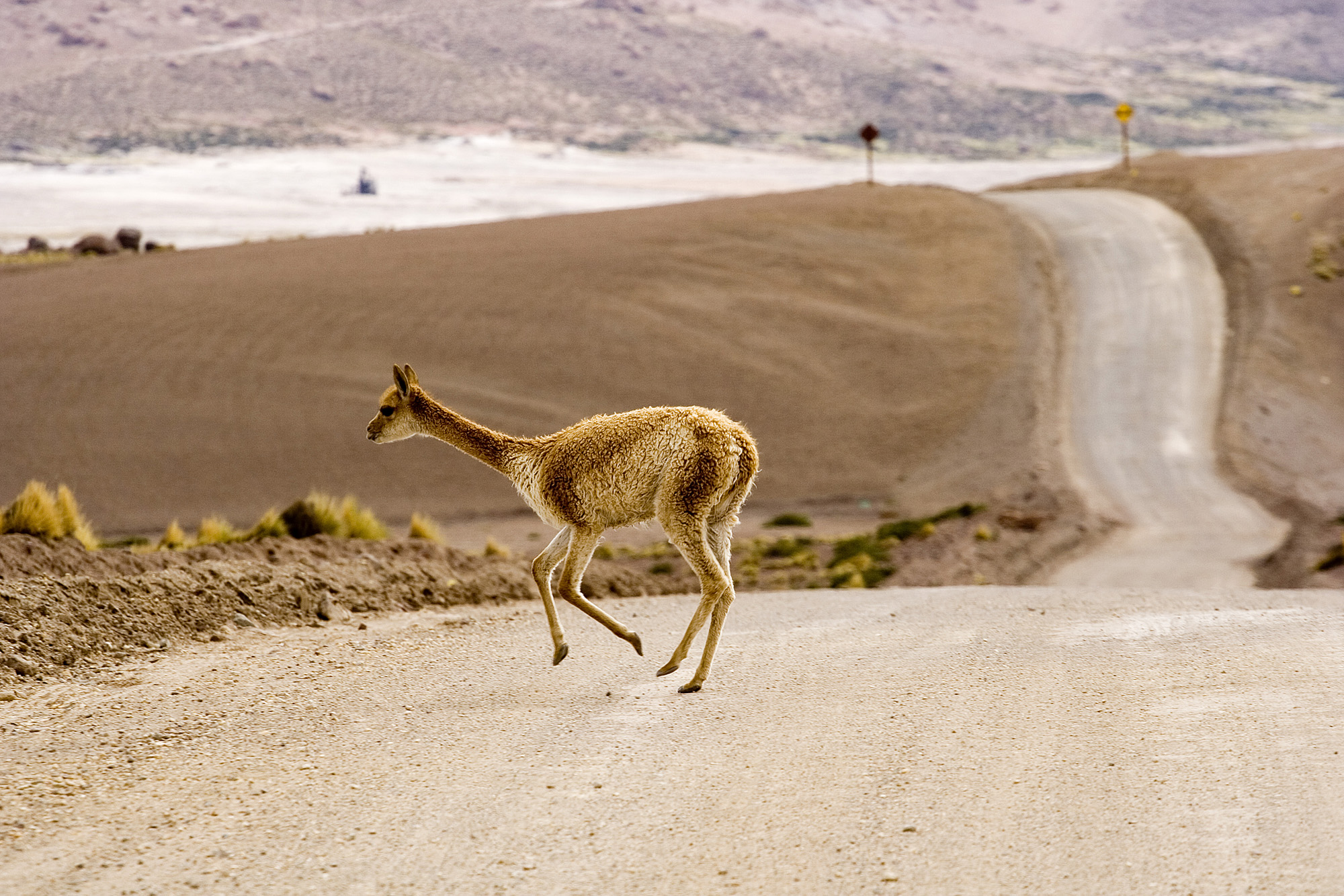 Vicuña (Vicugna vicugna) near El Tatio, 4200 m alt., northern Chile.